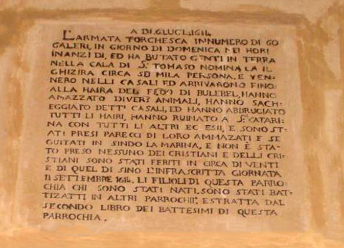 Commemorative plaque raid on Zejtun 1614